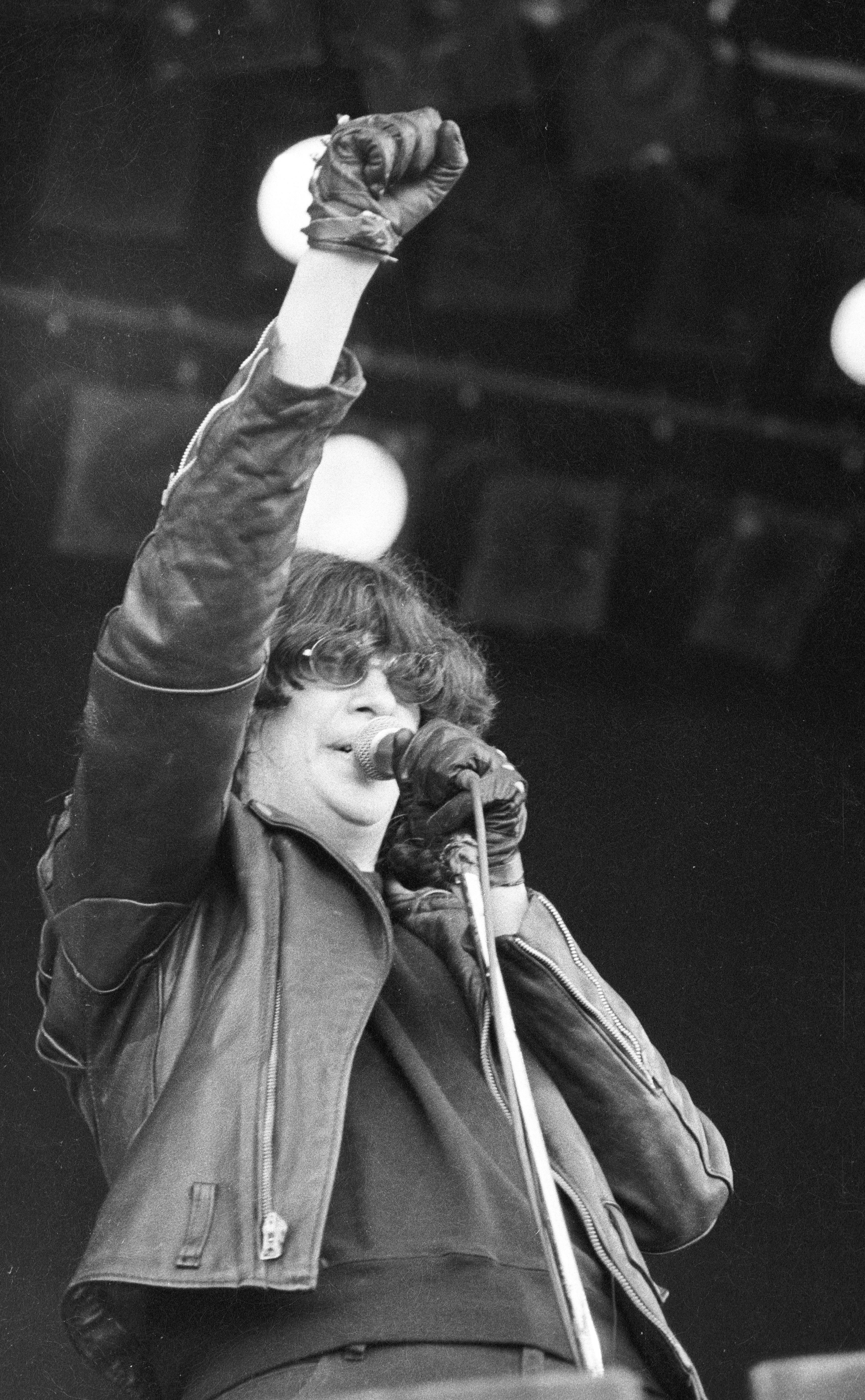 Joey Ramone Live.